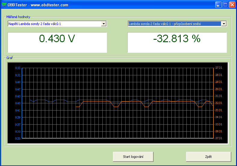 Merene hodnoty v programu OBDTester. Ze stranky [1].